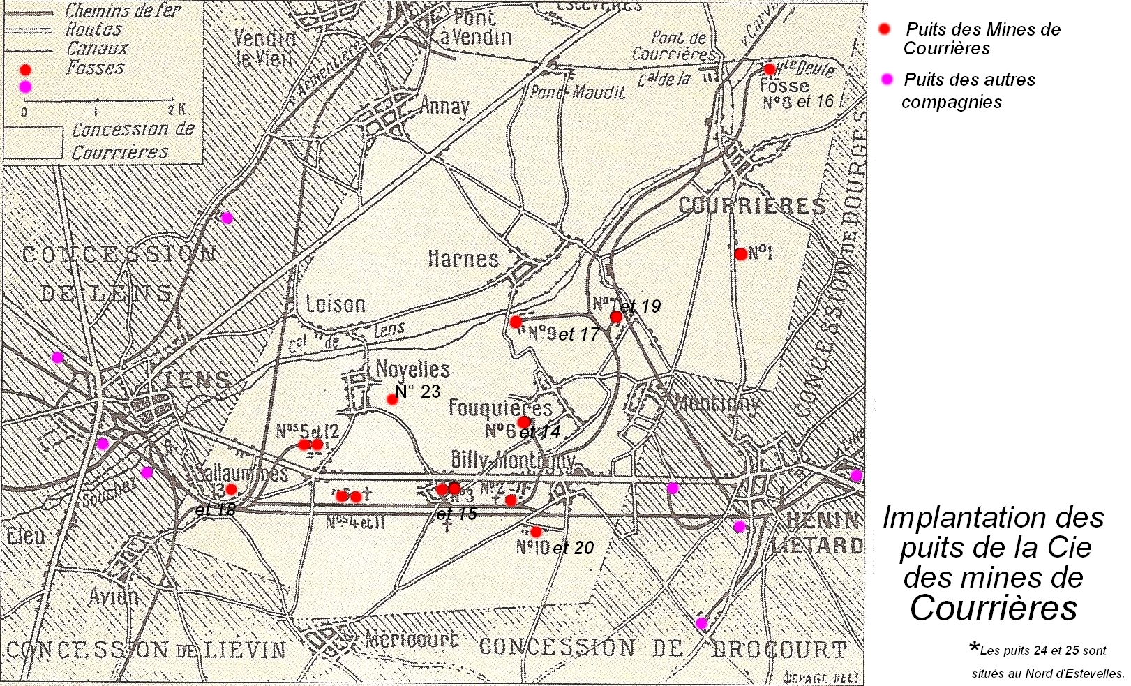 Compagnie des mines de Courrières, France.